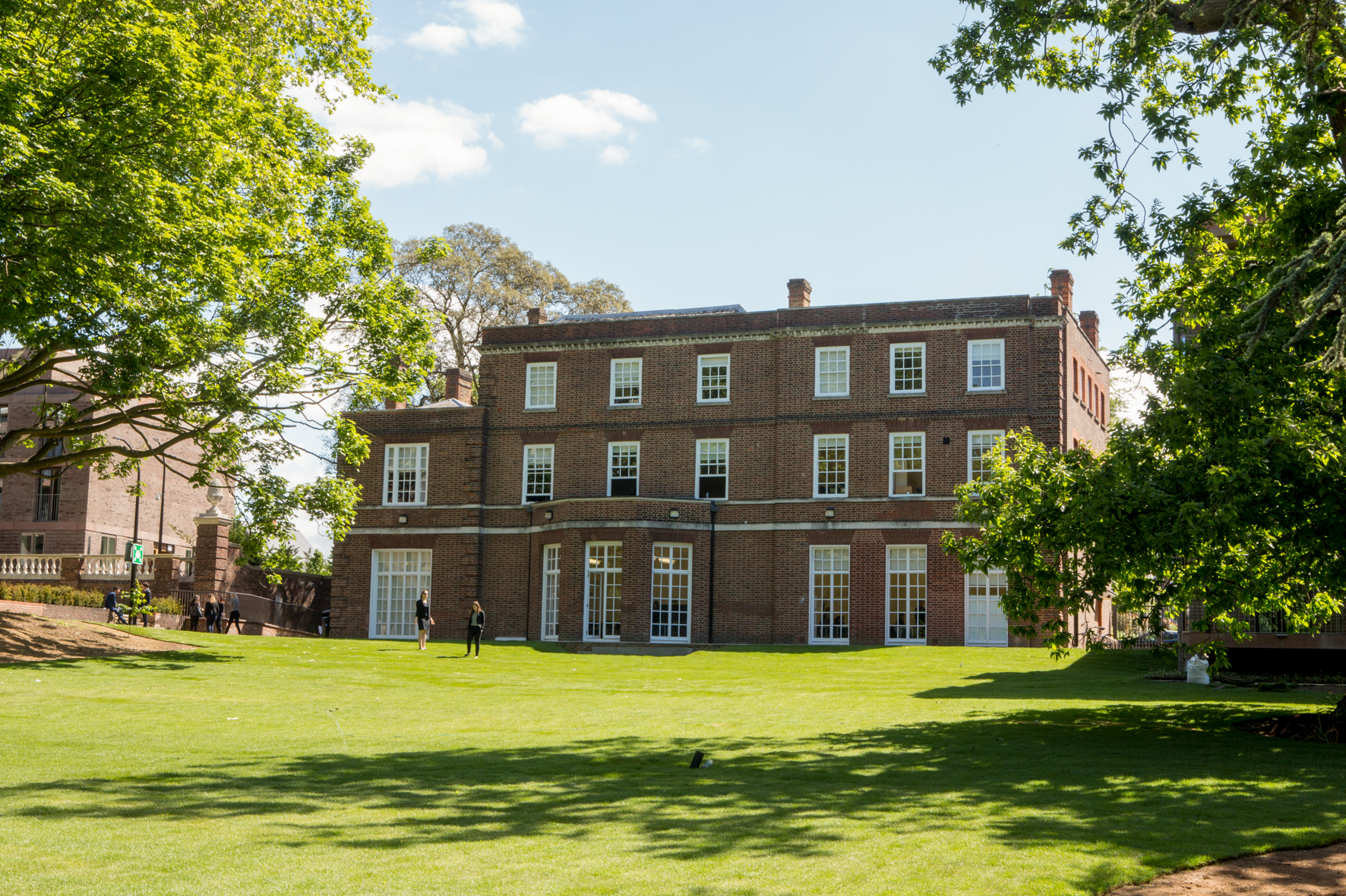 Glion London is the first Swiss hospitality institution located in the UK. Opened in 2013, Glion London is in the grounds of the University of Roehampton, which enables students to use the university’s resources and facilities. Students who study at Glion London enjoy the same academic standards and programme structure available at Glion’s Swiss campuses